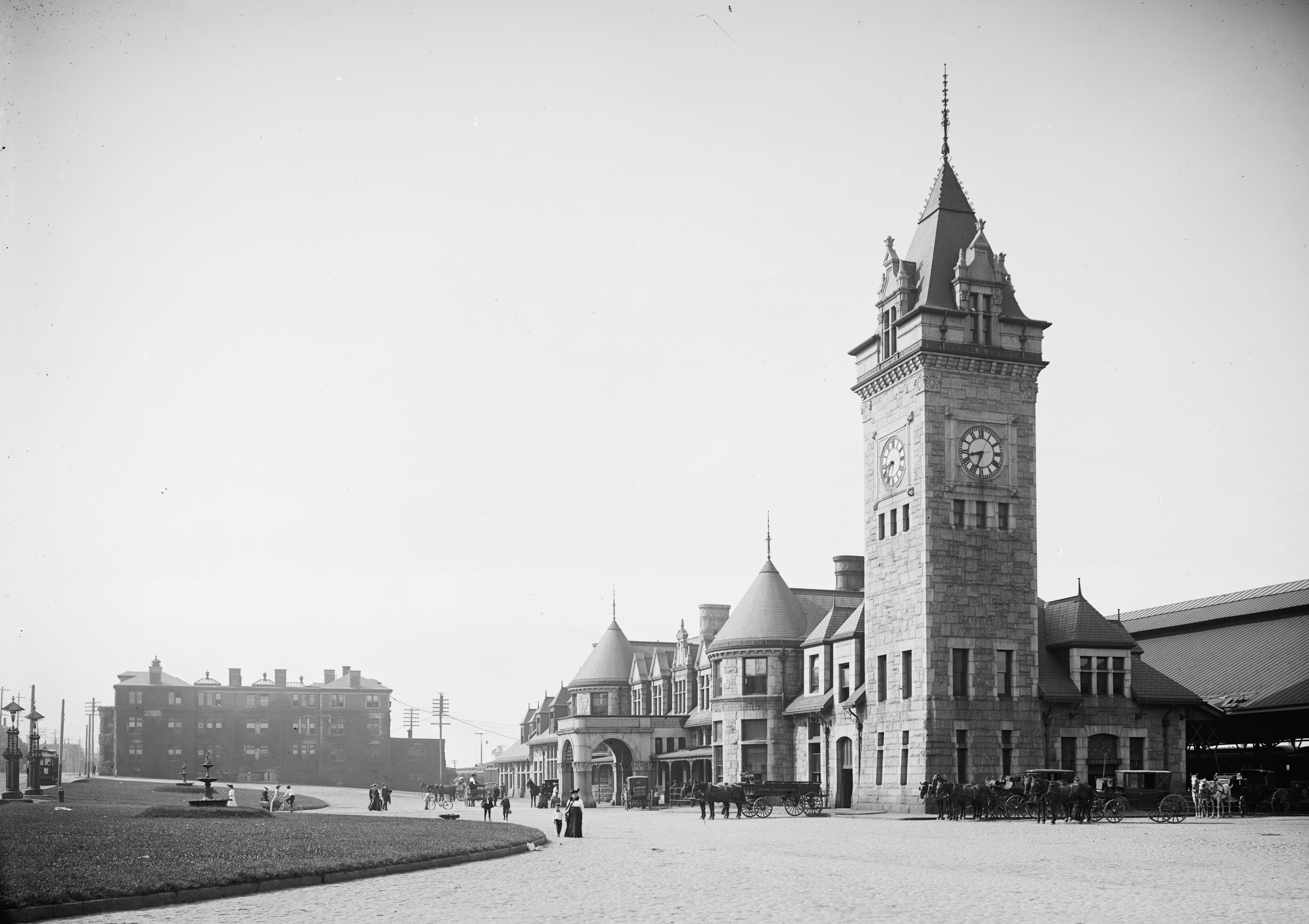 Union Station, Portland, Me. Medium: 1 negative : glass ; 8 x 10 in. Reproduction Number: LC-D4-71191 (b&w glass neg.) Call Number: LC-D4-71191 [P&P] Repository: Library of Congress Prints and Photographs Division Washington, D.C. 20540 USA Notes: "33544" on negative. Detroit Publishing Co. no. 071191. Gift; State Historical Society of Colorado; 1949.